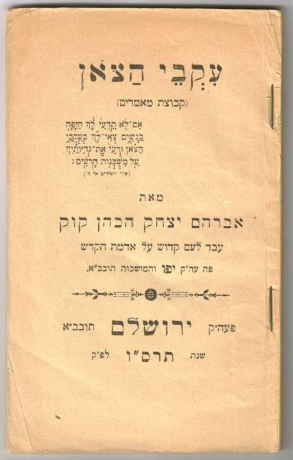 IkveiHatzon- Book by Rabbi A. Y. Kook, Jaffa, 1906, 1st ed.